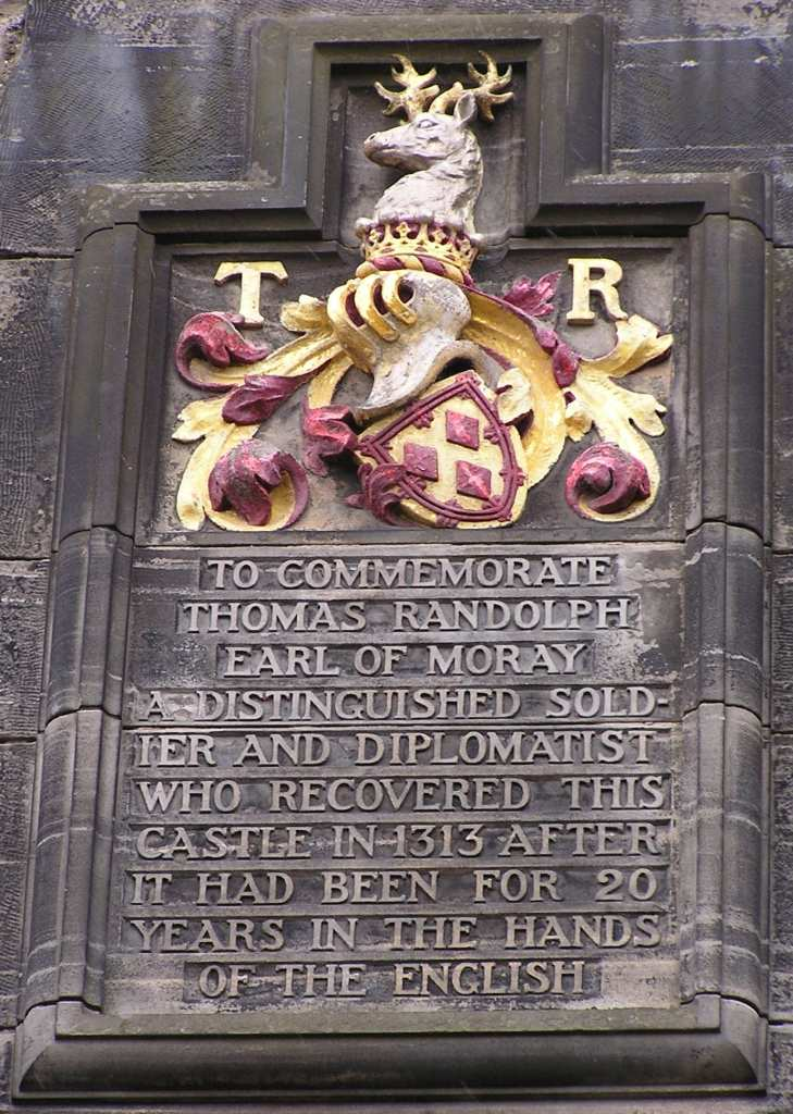 Inscription at Edinburgh Castle commemorating Thomas Randolph's liberation of the castle in 1314 (Date is wrong on inscription due to calender changes applies since it was laid). Taken by Storkk